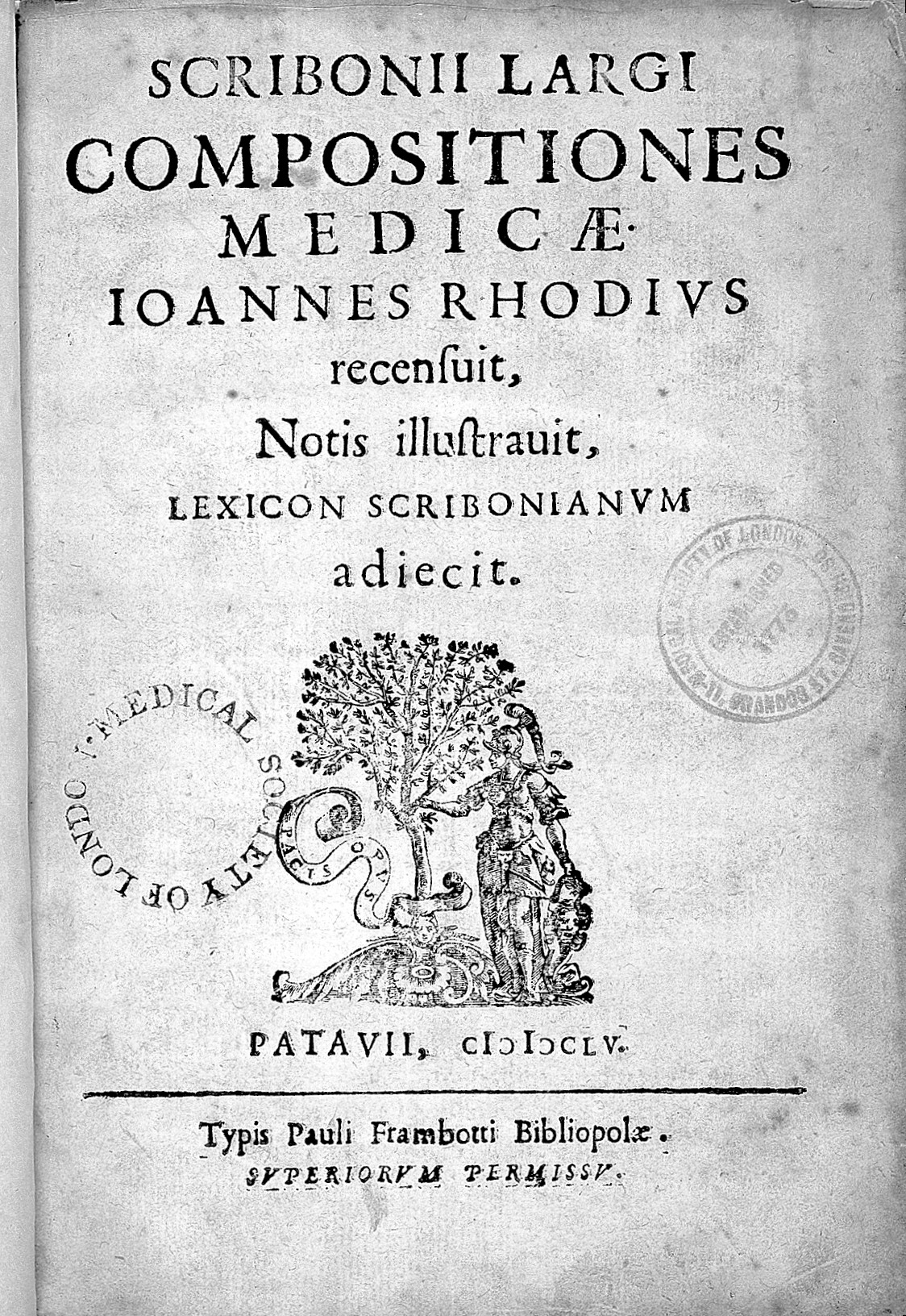 Title page Rare Books